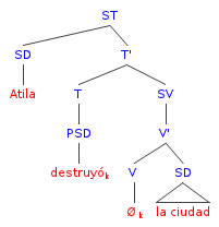 The Spanish sentence: Atila destruyó la ciudad 'Atilla destroyed the city" using active voice